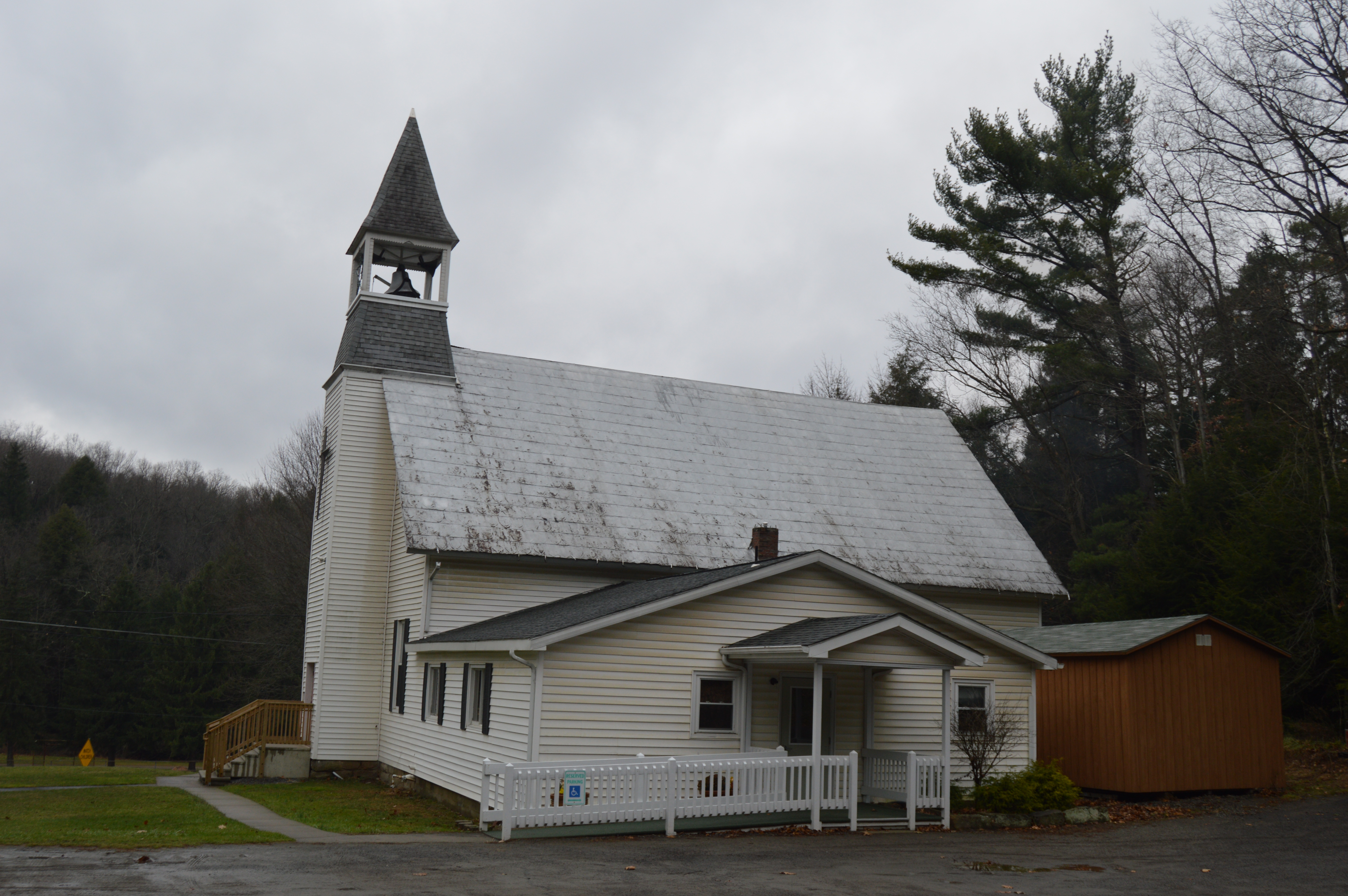 Roadside view of the First Baptist Church of Limestone, located along Pennsylvania Route 66 in Limestone, Pennsylvania, United States.